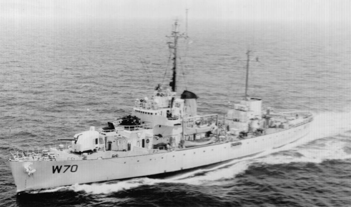 USCGC Pontchartrain WHEC-70 of the 1950s